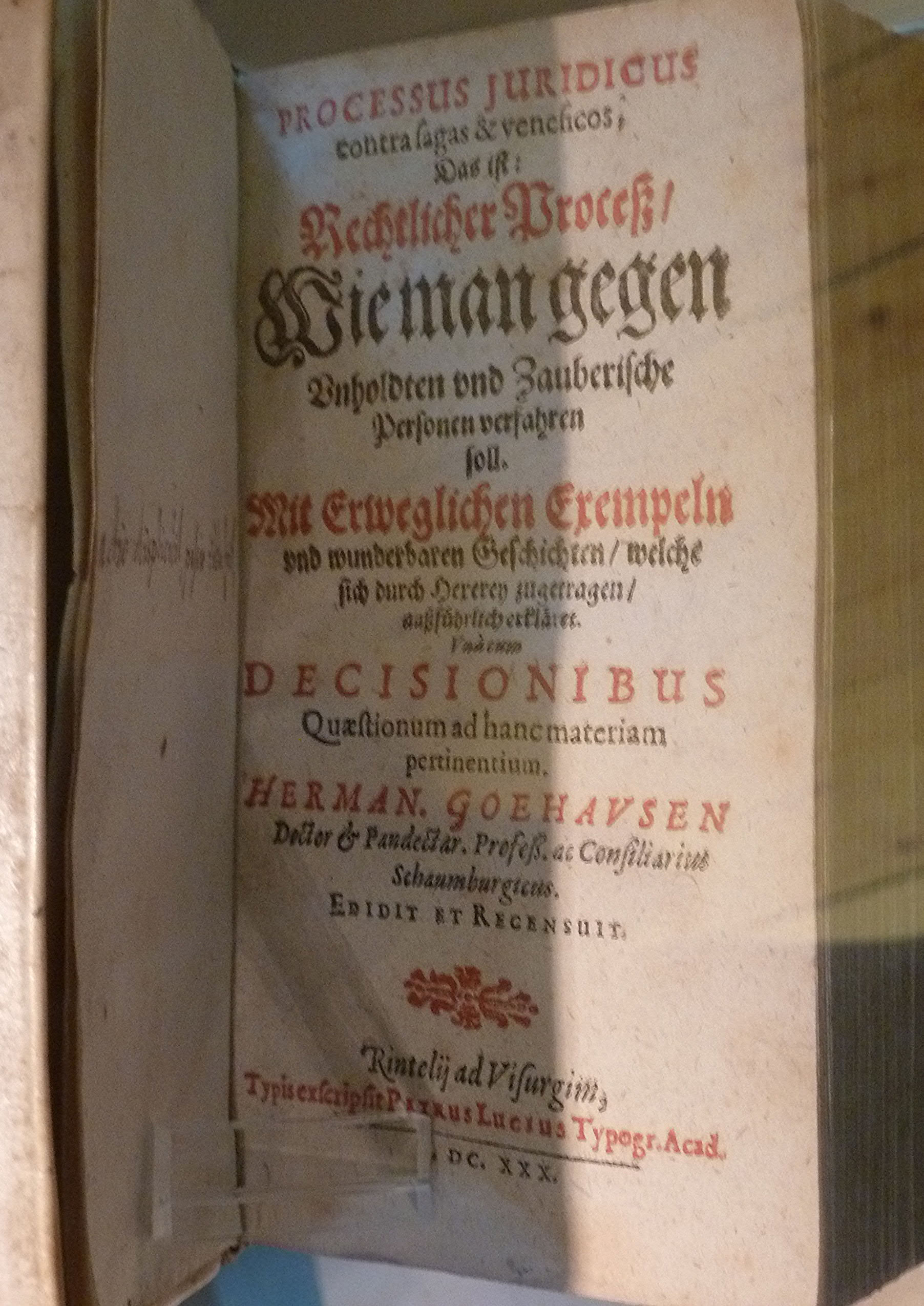 Title-Page of Hermann Goehausen's 'Processus Juridicus', Rinteln 1630